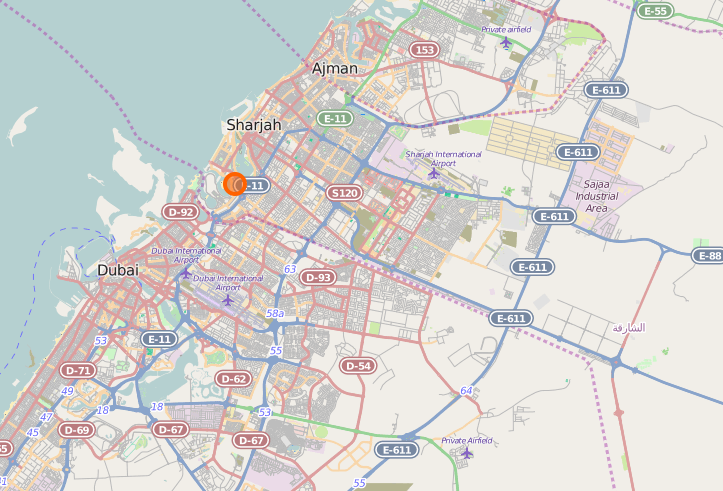 Open Street Map of Barjeel Location in Sharjah, UAE